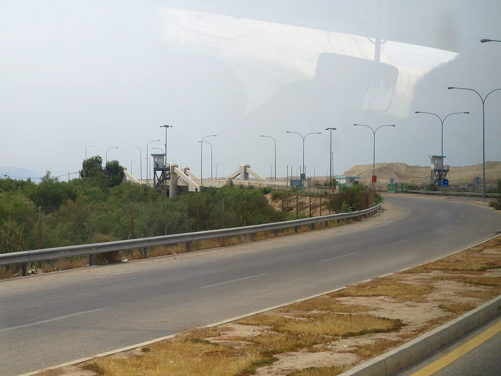 Allenby Bridge (King Hussein Bridge) from Jordan side.